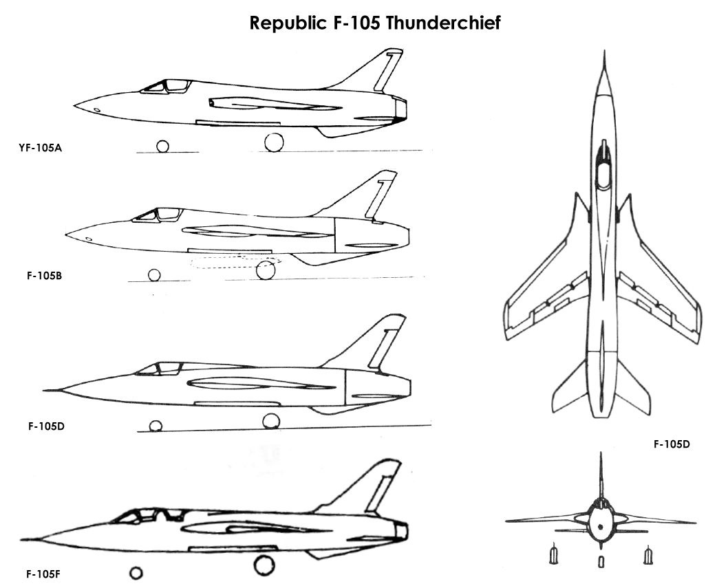 Line drawings for the Republic F-105D Thunderchief with side views of the YF-105A, F-105B, F-105D and F-105F.